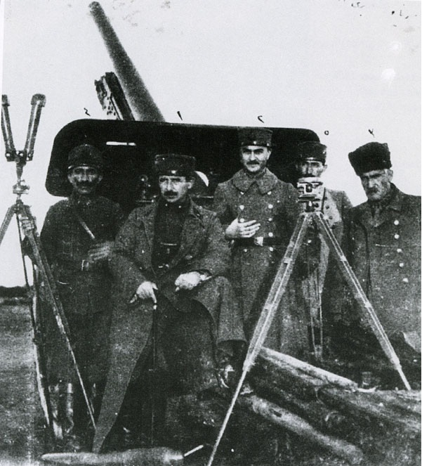 The commander of the Western Front İsmet Pasha (İnönü) and his chief of staff Asım Bey (Gündüz), 6 February 1922.